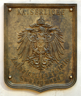 Shield: Imperial German customs office in Swakopmund, Namibia